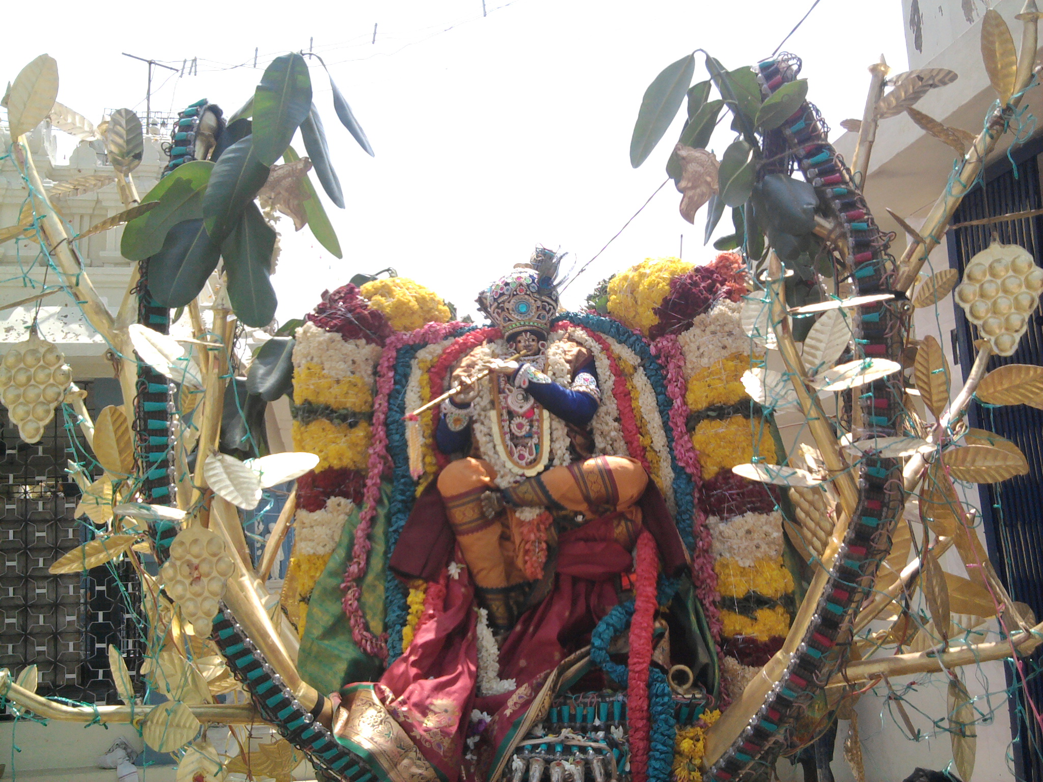 Ponnamaanu utsav